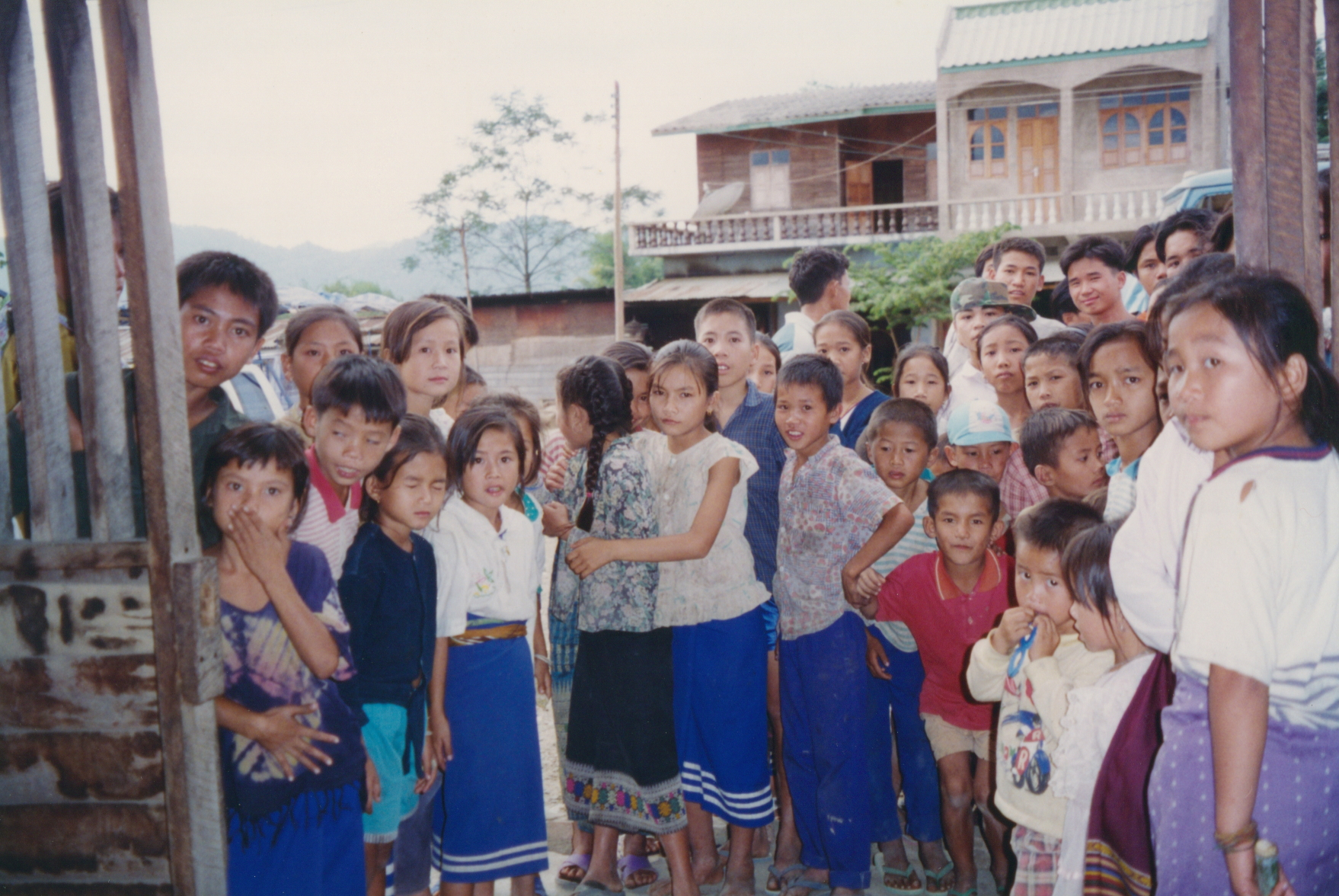 Muang Houn is roughly halfway between Pakbeng and Muang Xay. During our short stop-over here, we were the attraction of the town. Obviously ;-) Tina distributed candy among the children who gathered just outside the 'restaurant' door (picture).